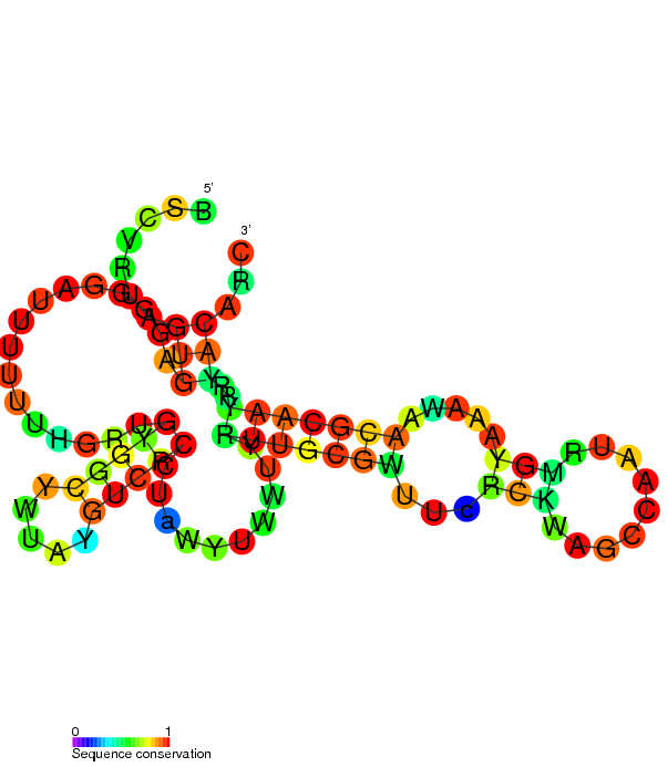 Conserved secondary structure of fst anti-toxin RNA transcript